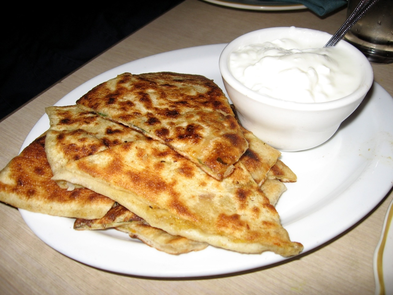 Bolani Afghan bread.